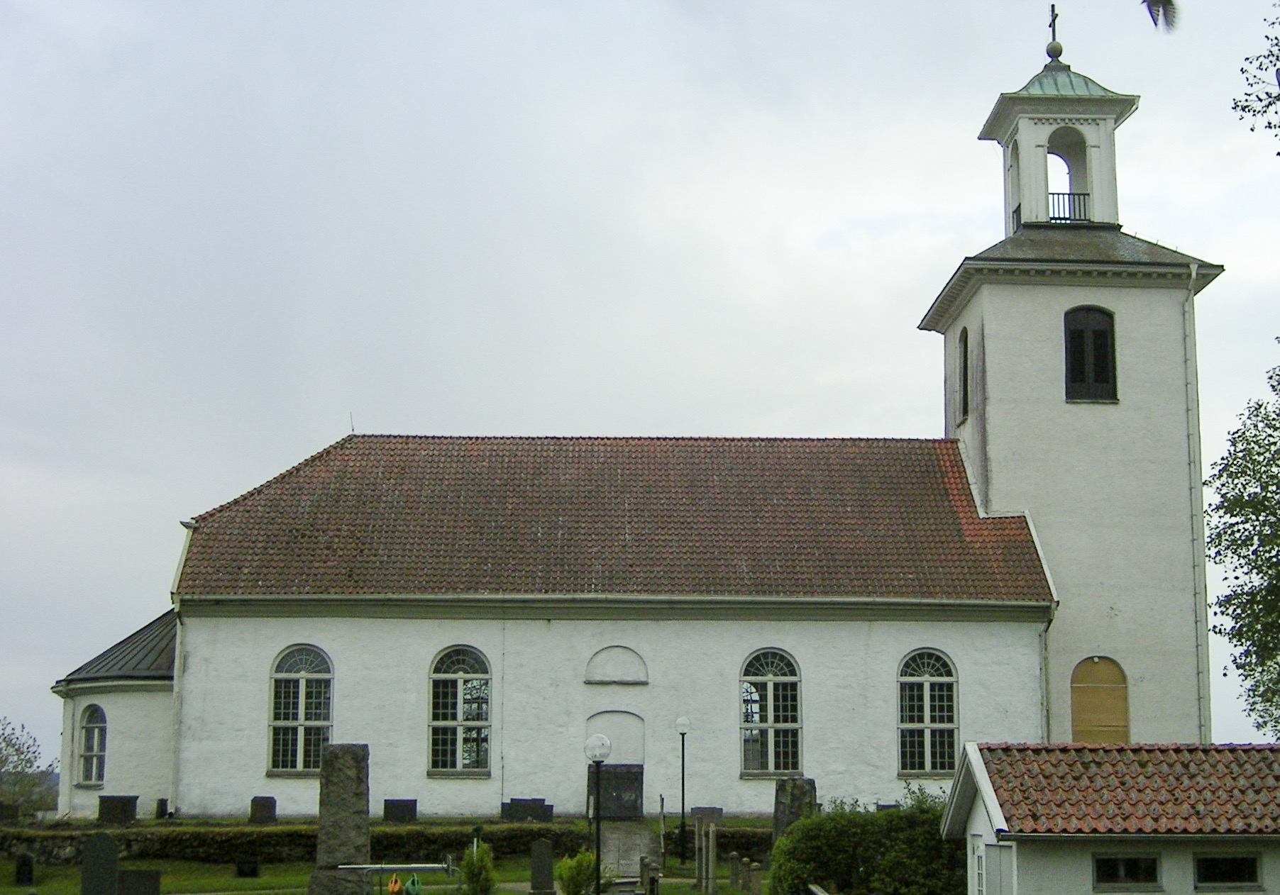 The church of Hössna in the province of Västergötland, Sweden.